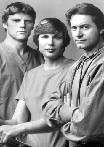 Publicity photo from Westside Medical. Shown left to right are: Ernest Thompson, Linda Carlson, and James Sloyan.